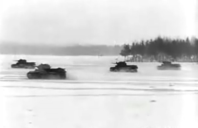 Still from Moscow Strikes Back, Soviet documentary of the Battle of Moscow. Directed by Ilya Kopalin. 1 of 4 films to win the 1943 Academy Award for Best Documentary.